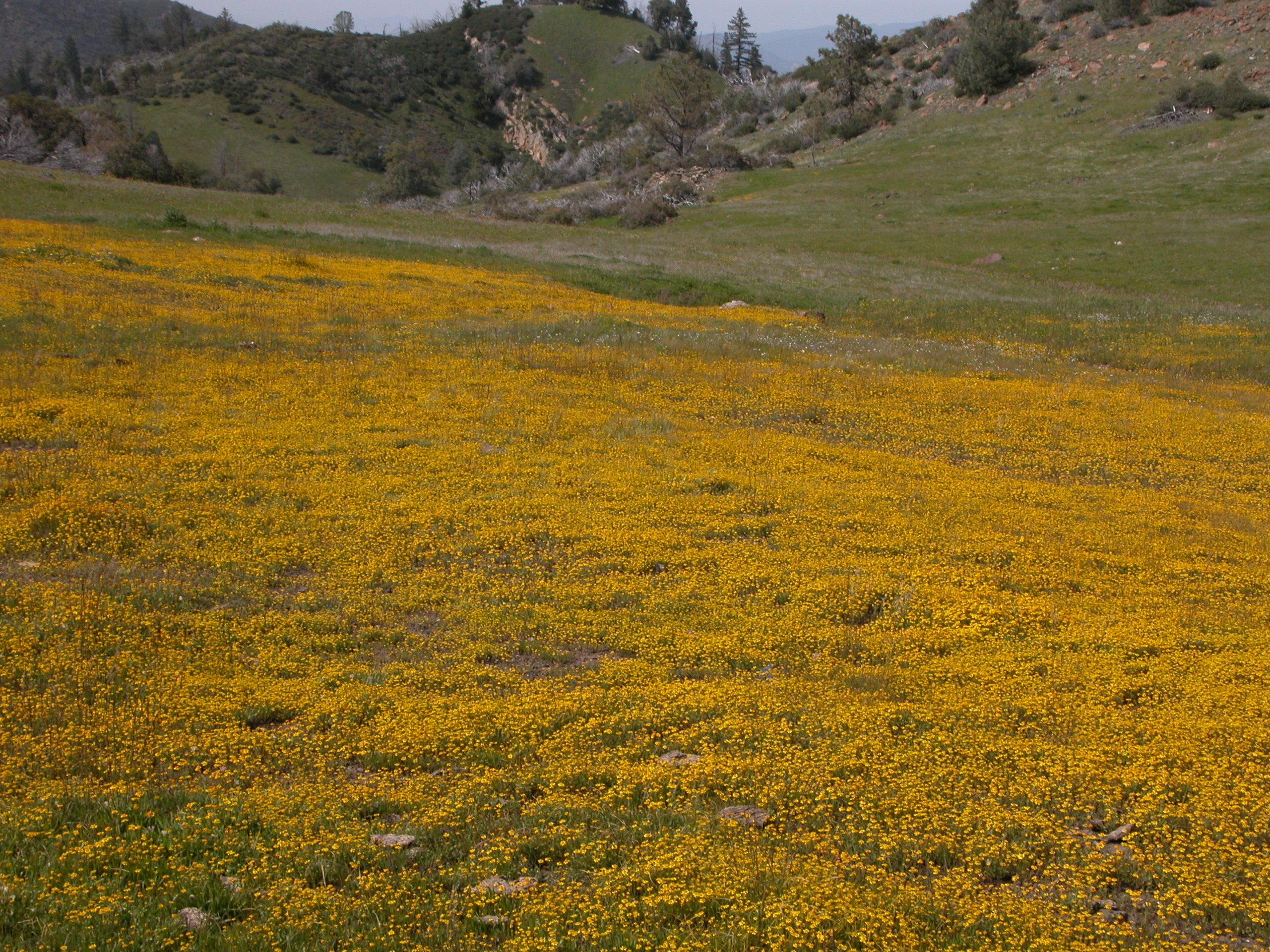 Field of flowers with an understory of bullet shells.